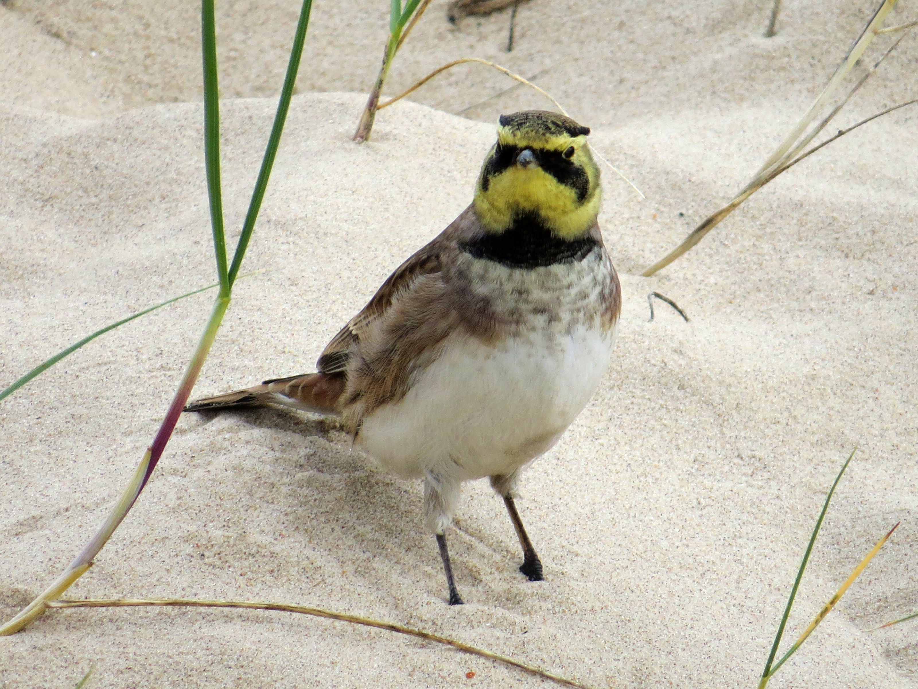 Shore Lark Eremophila alpestris flava, Blyth Harbour, Northumberland